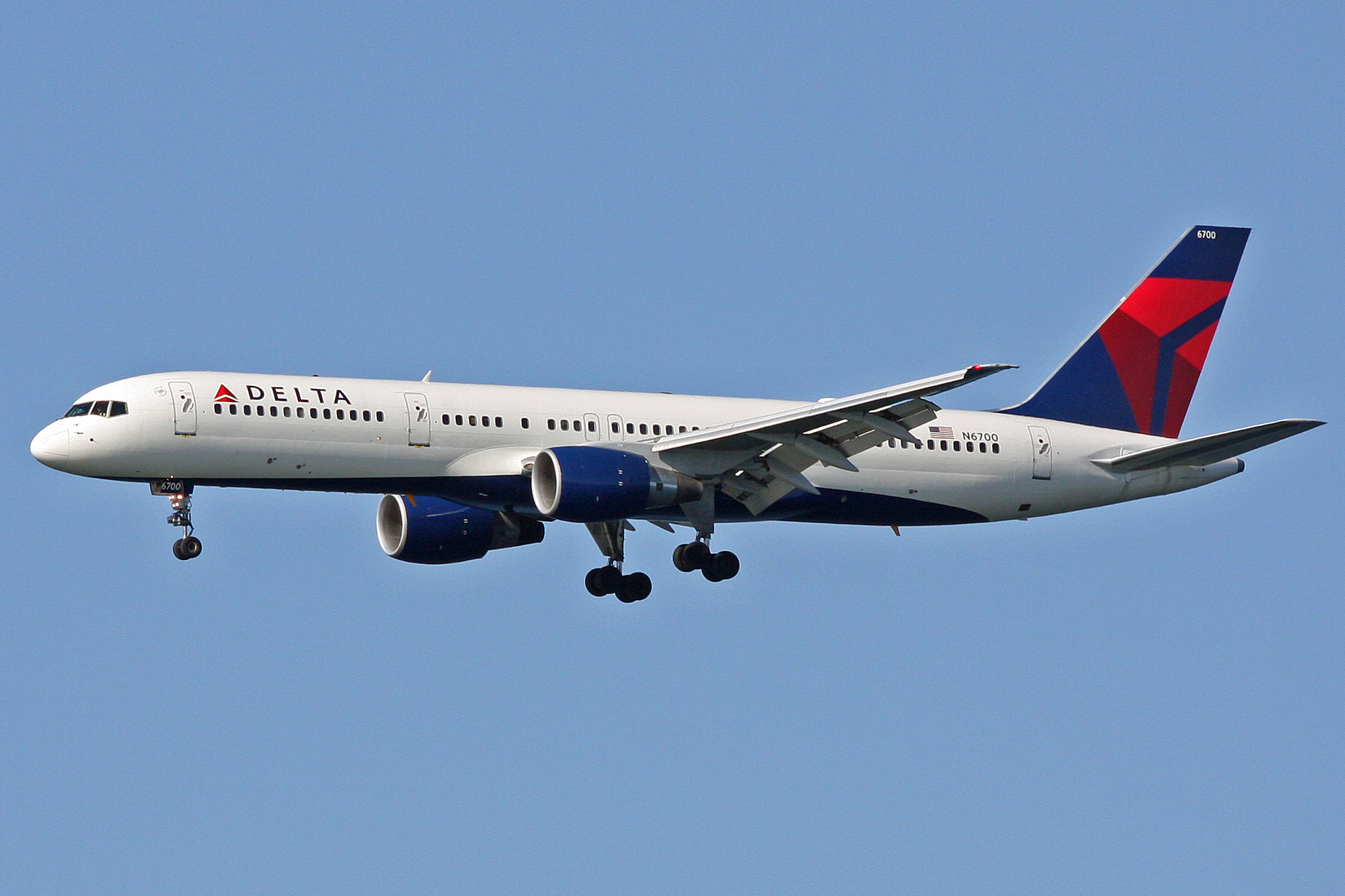 Coming in for a landing.